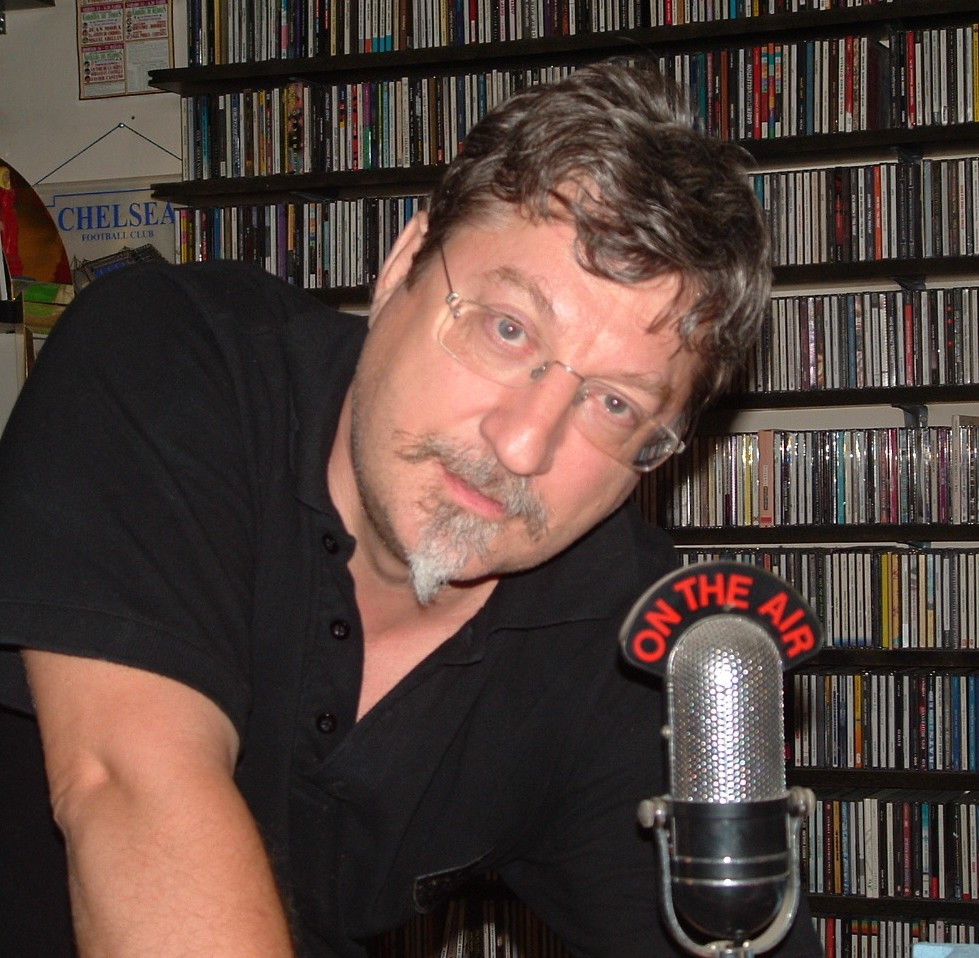 the italian journalist Lucio Mazzi